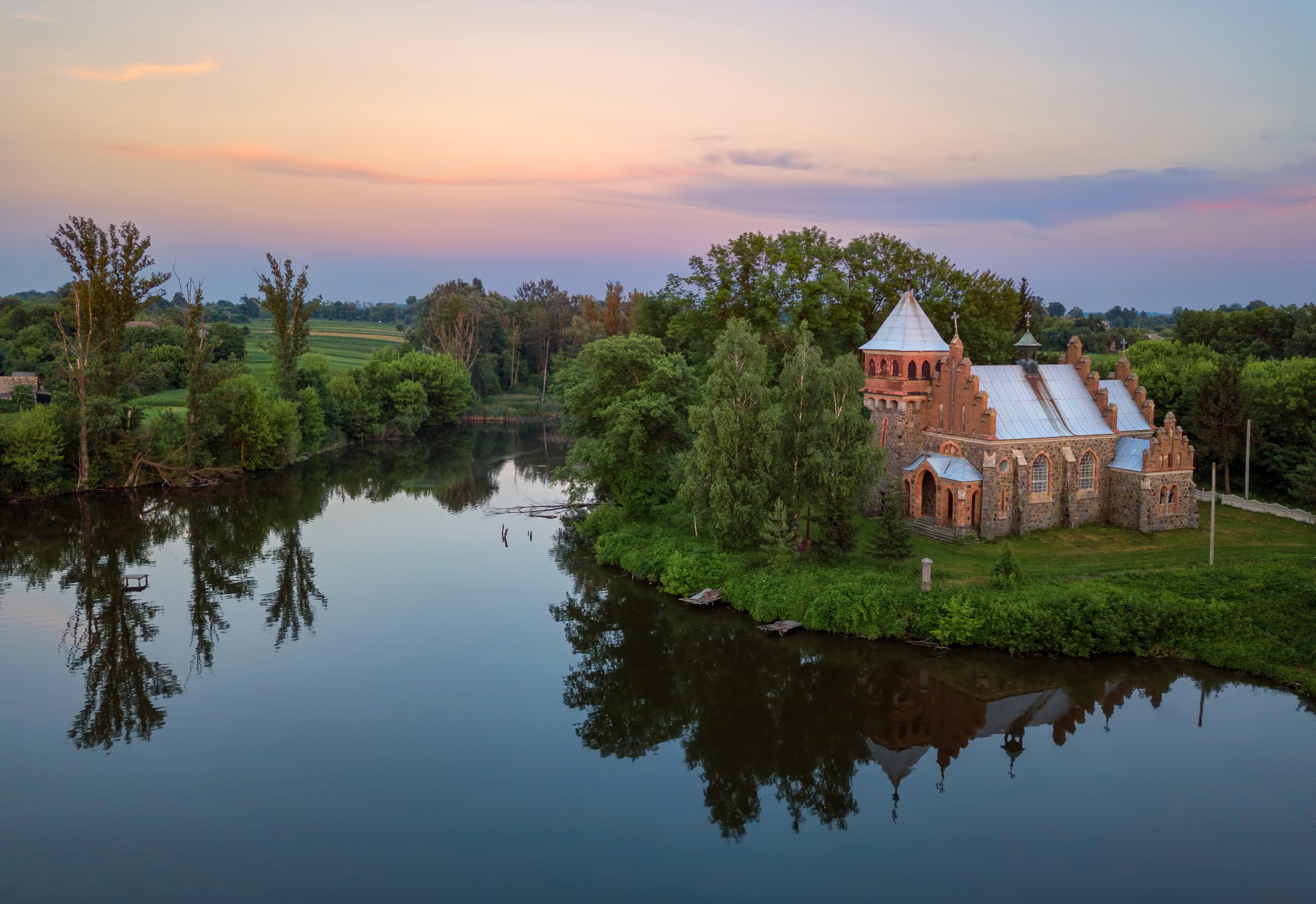 Saint Clare church, Horodkivka, Zhytomyr Oblast, Ukraine